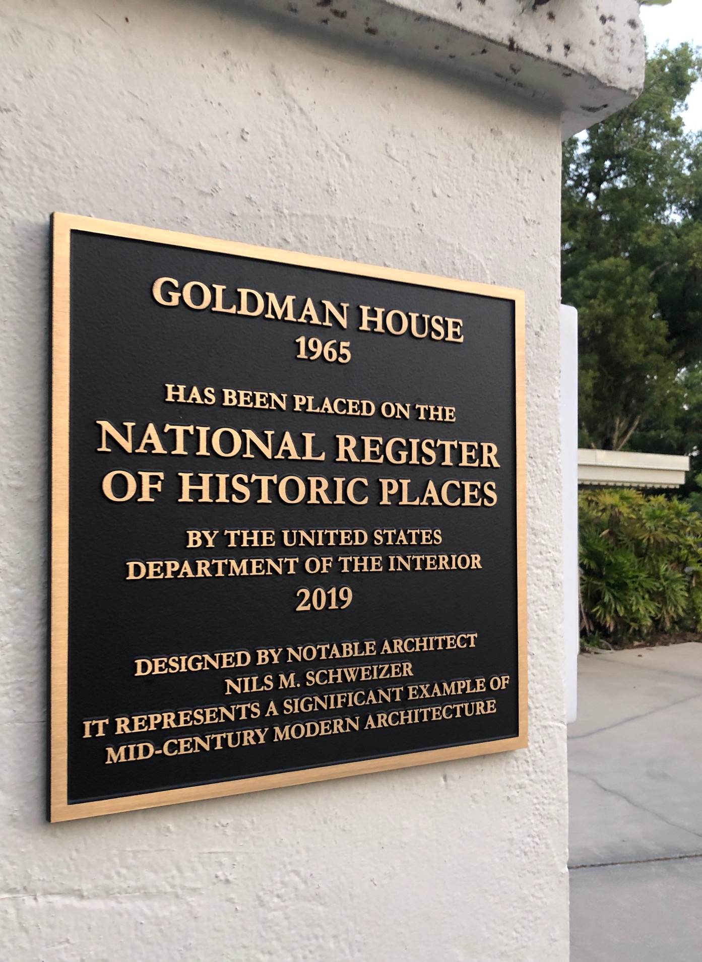 Goldman House National Register of Historic Places Bronze Plaque